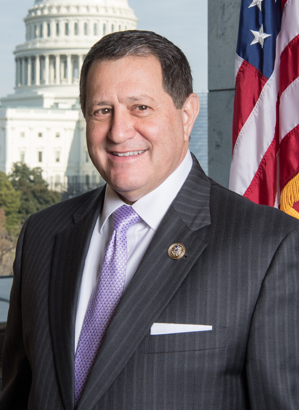 Official congressional photograph of Joe Morelle.